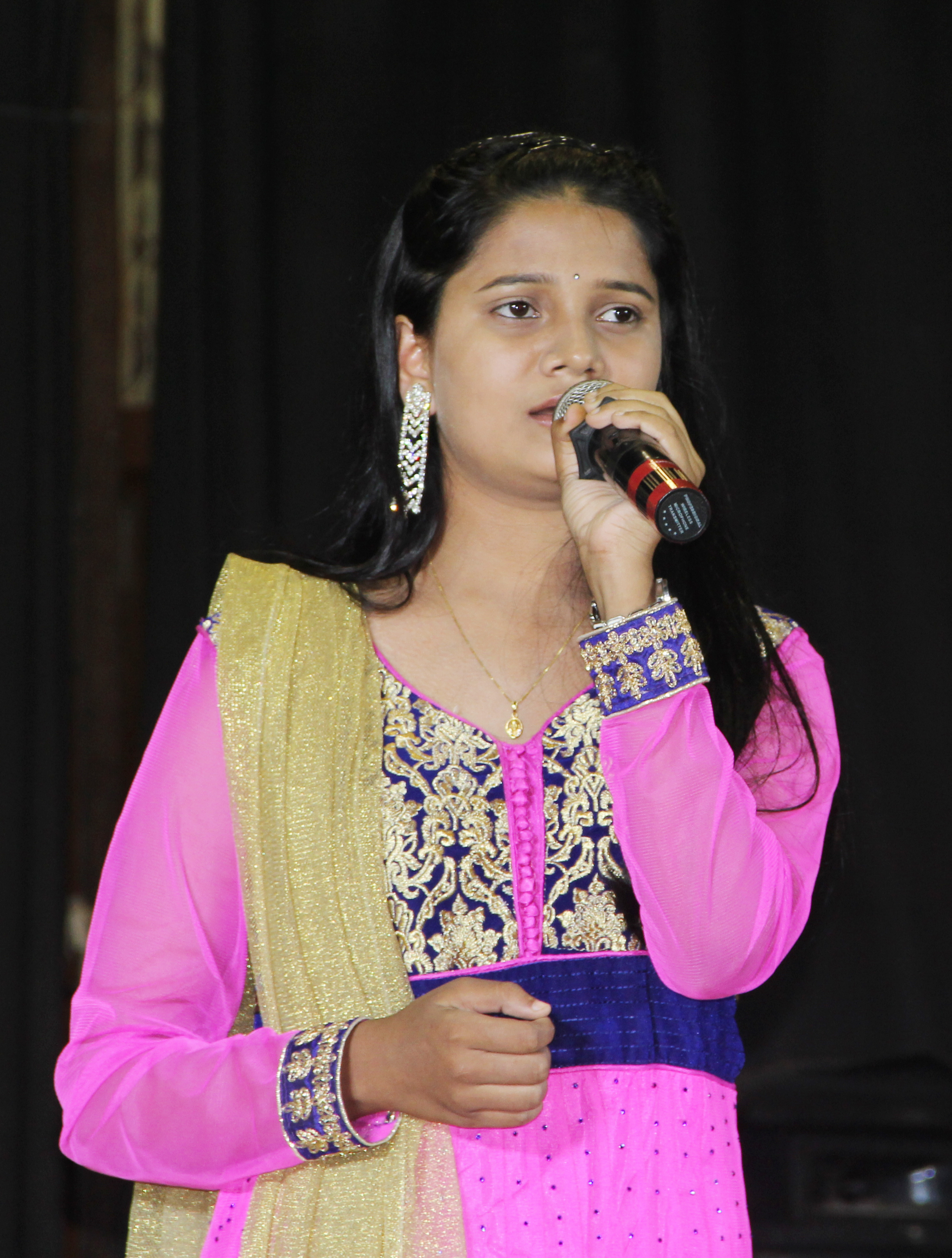 ଓଡ଼ିଆ: Barnali Hota from Bhubaneswar, Orissa is one of the contestant on Sa Re Ga Ma Pa Li'l Champs 2011.